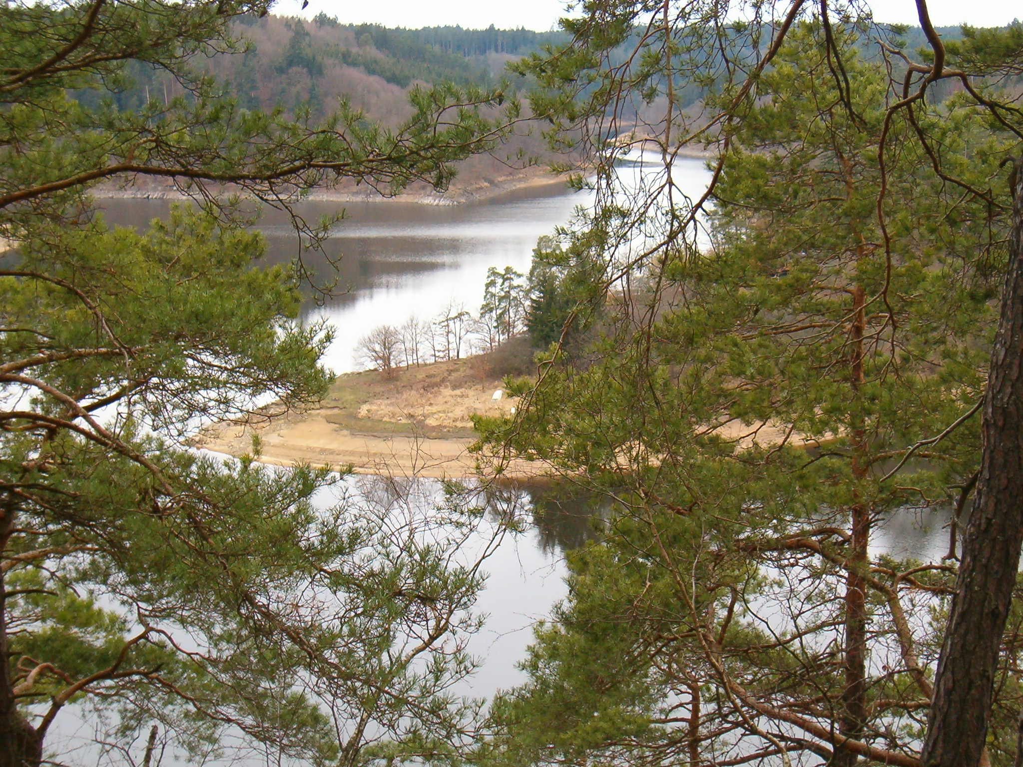 Confluence Otava river with Lomnice (2007-02-18))